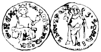 Image from Z. Gloger's "Encyklopedia staropolska"